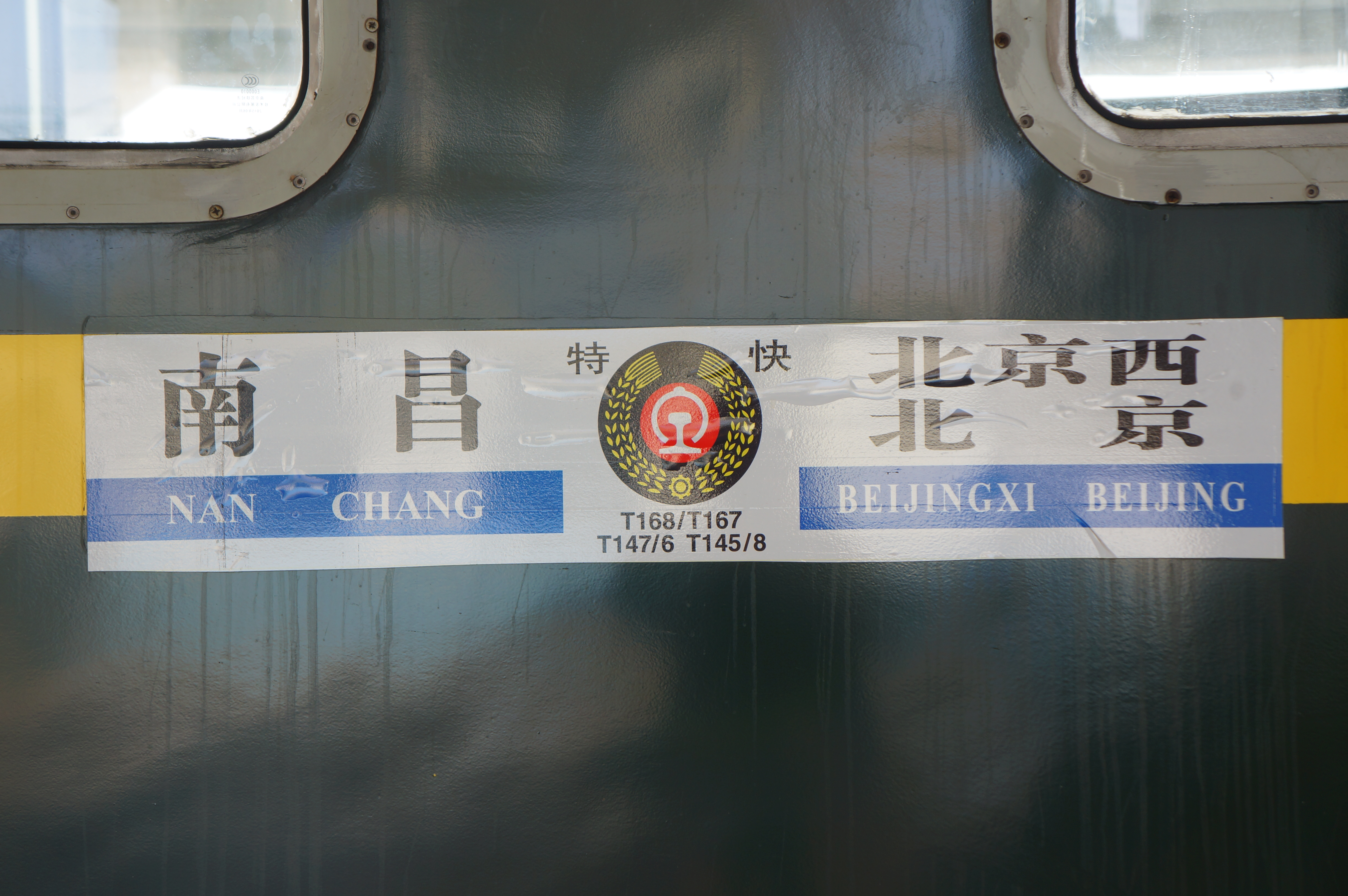 T145,6,7,8 and T167,8 info board in 201612, taken at Wannian Station, probably it's the first time for 25K coaches at Wannian Station.